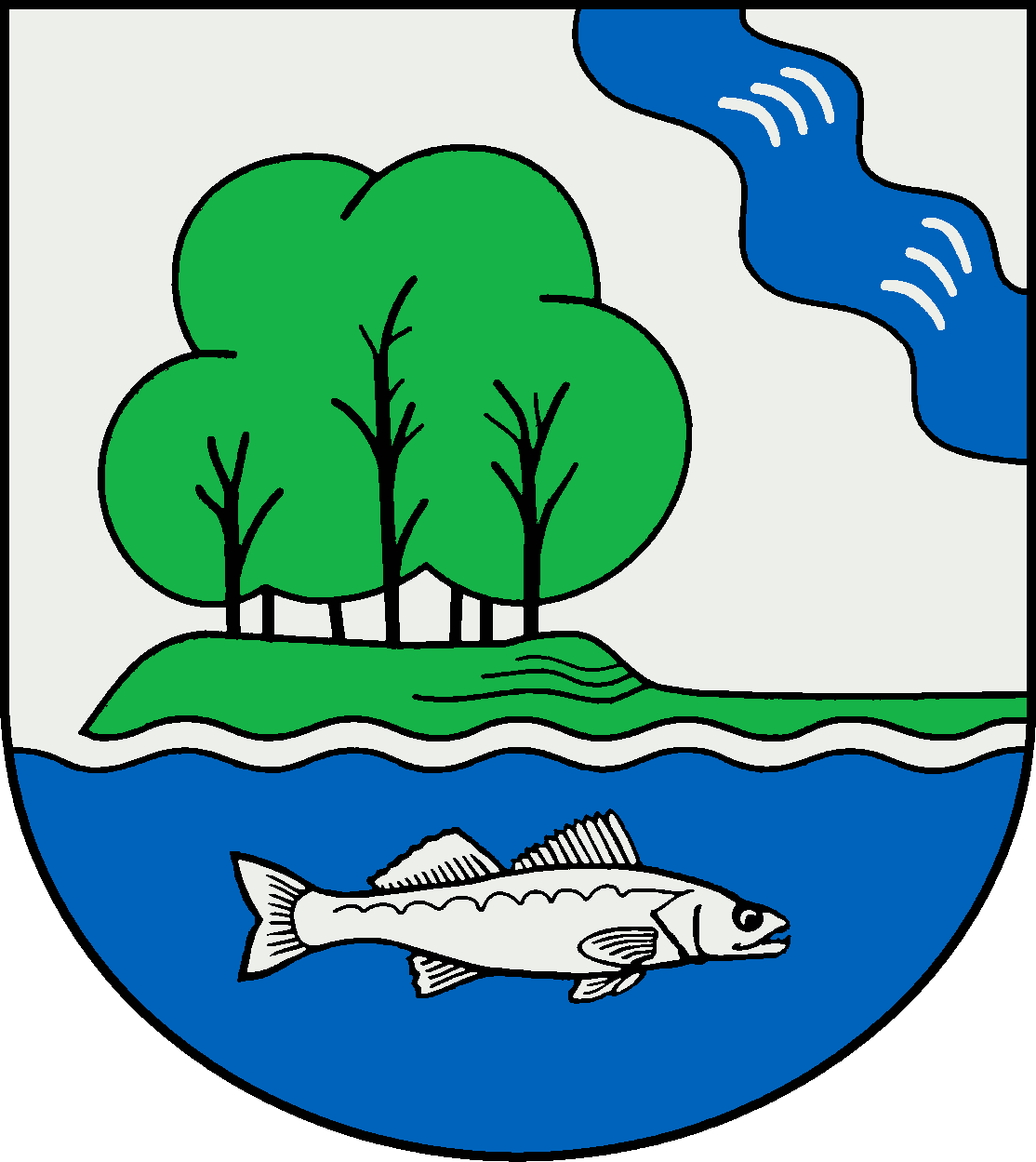 Coat of arms of the municipality Neversdorf in Schleswig-Holstein, Germany.